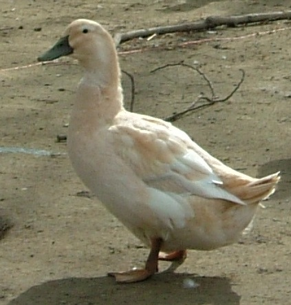 Picture of a female Golden Cascade